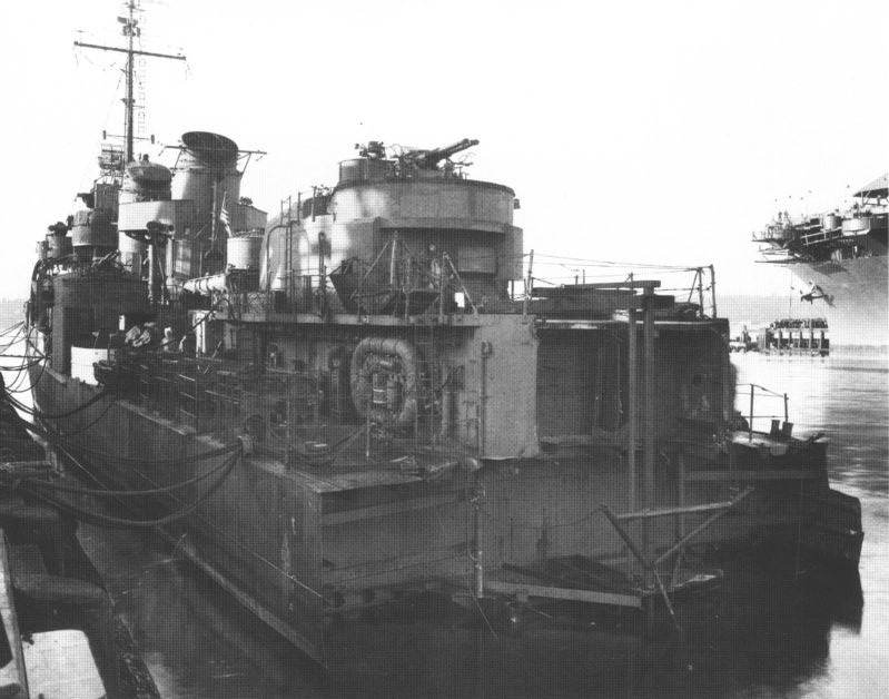 The U.S. Navy destroyer USS Abner Read (DD-526) at the Puget Sound Naval Shipyard, Washington (USA), after losing her stern to a mine off Kiska, Alaska (USA), on 18 August 1943. Temorary repairs had been made in a floating drydock at Adak, Alaska. She was under repair in Puget Sound from 7 October to 2 December 1943. Note Abner Read's temporary rudder and the bow ot the aircraft carrier USS Enterprise (CV-6) at right.